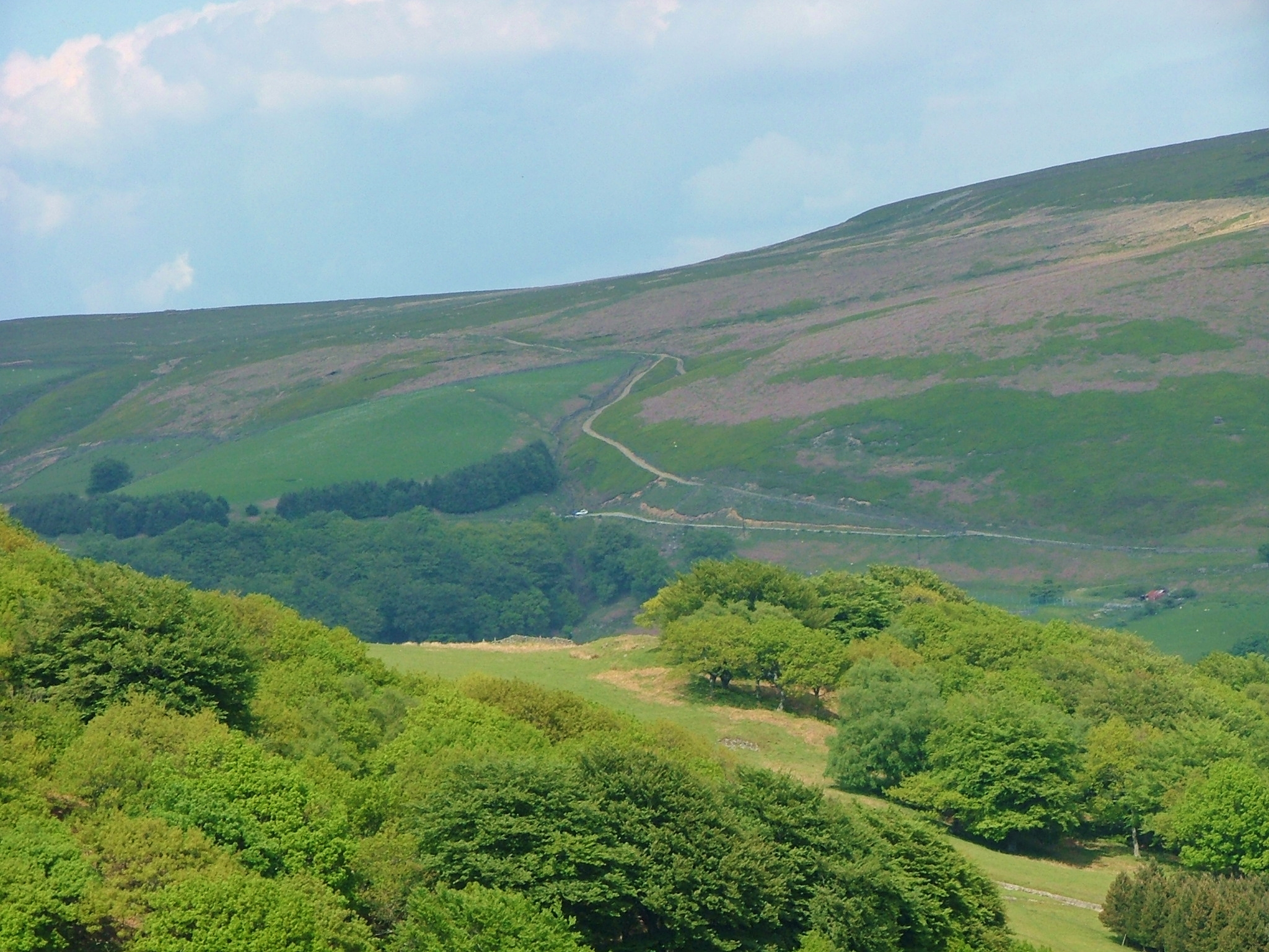 Hills climb to over 580m